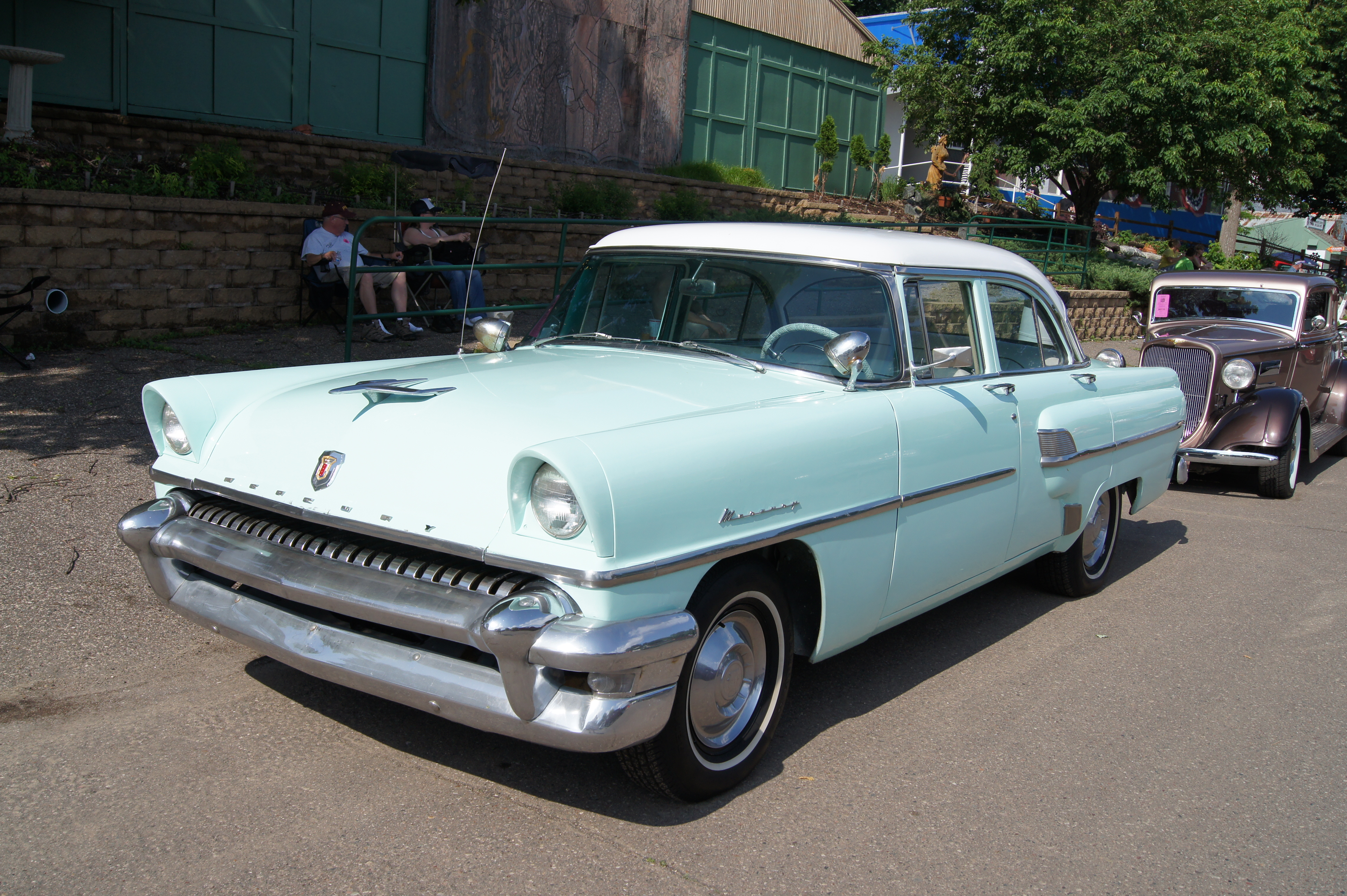 MSRA “BACK TO THE 50′s” 40th ANNIVERSARY June 21-23, 2013 State Fairgrounds St. Paul Minnesota More Car Pictures